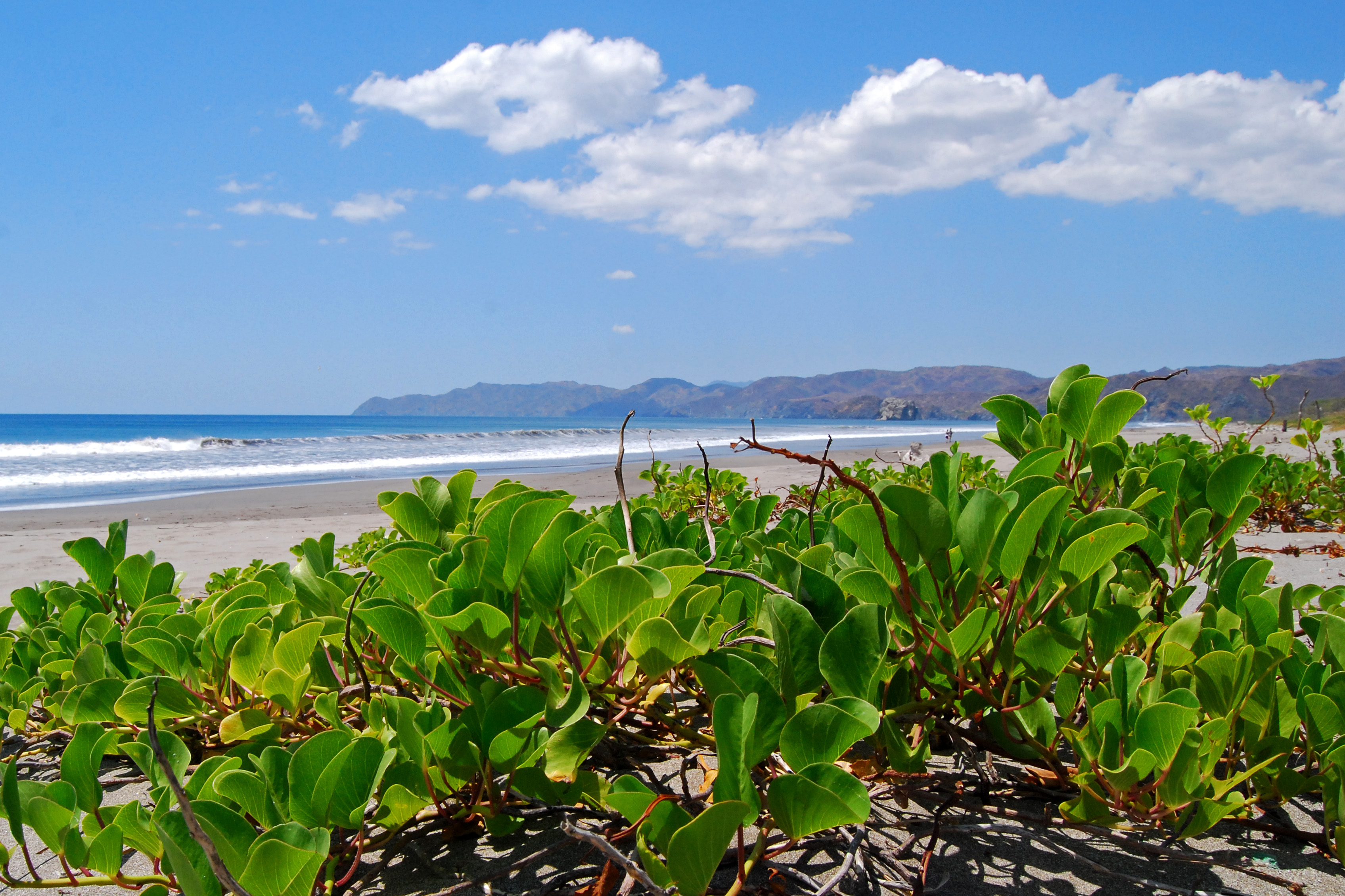 Beach at Santa Rosa National Park — Guanacaste Province, northwestern Costa Rica.